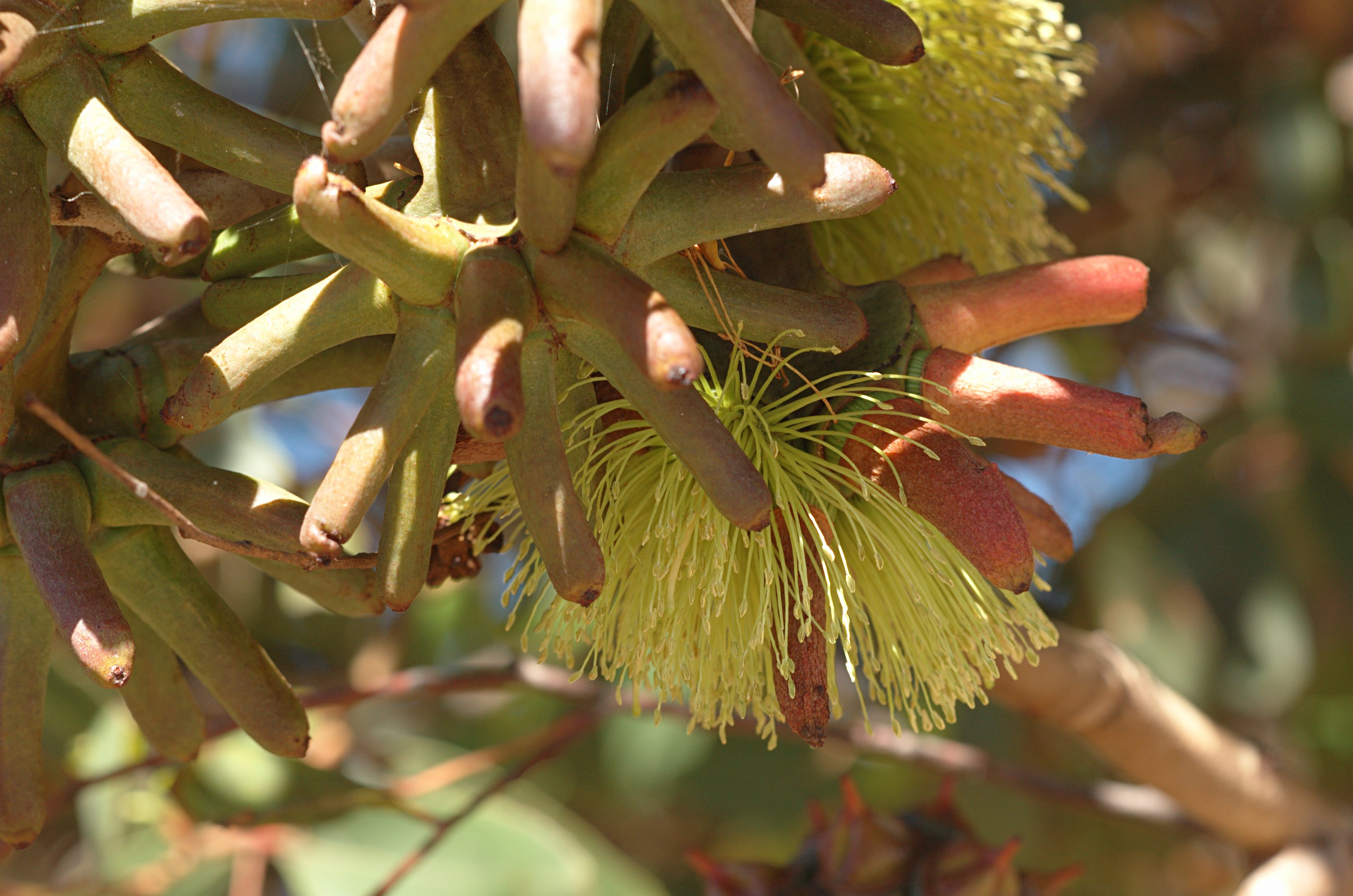 Probably Bald Island Marlock (Eucalyptus conferruminata), opercula or flower bud covers and flowers. East Devonport, Devonport, Tasmania, Australia.